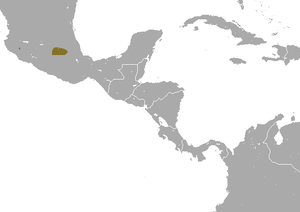 Mexican Long-tailed Shrew (Sorex oreopolus) range